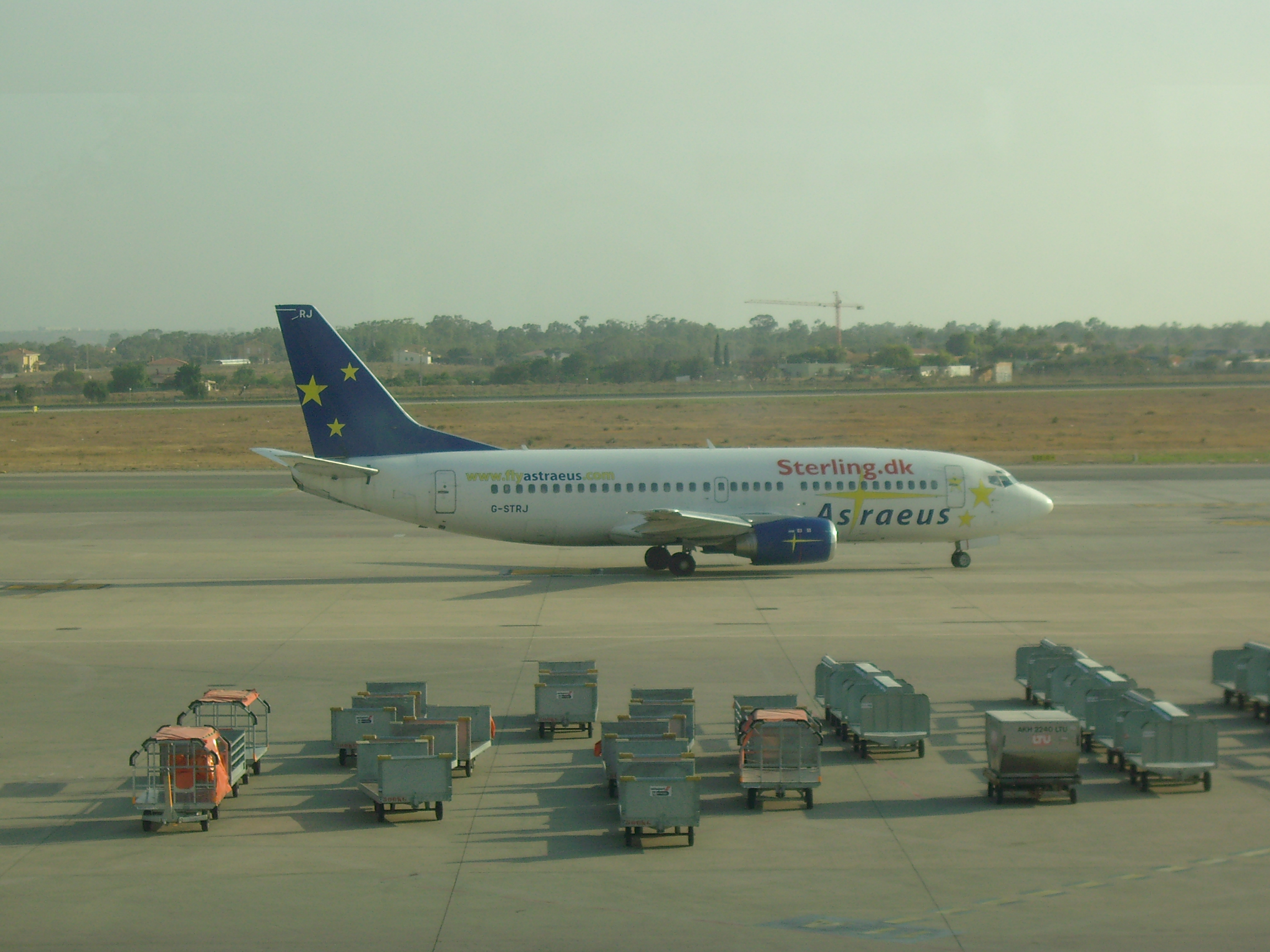 An Astraeus 737-300 (G-STRJ) operated for Sterling at Alicante Airport